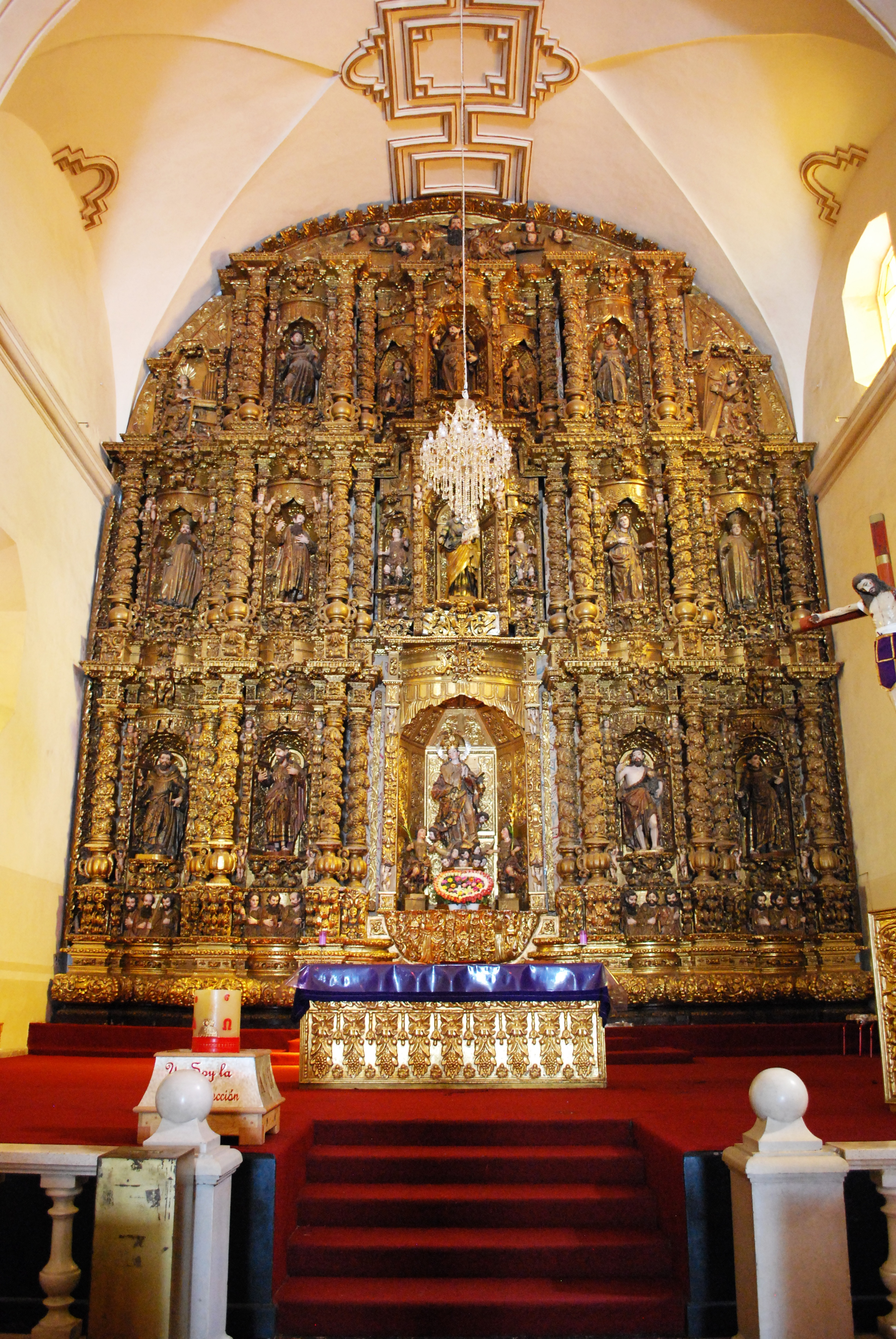 Main altar at the Immaculate Conception church in Ozumba, Mexico State